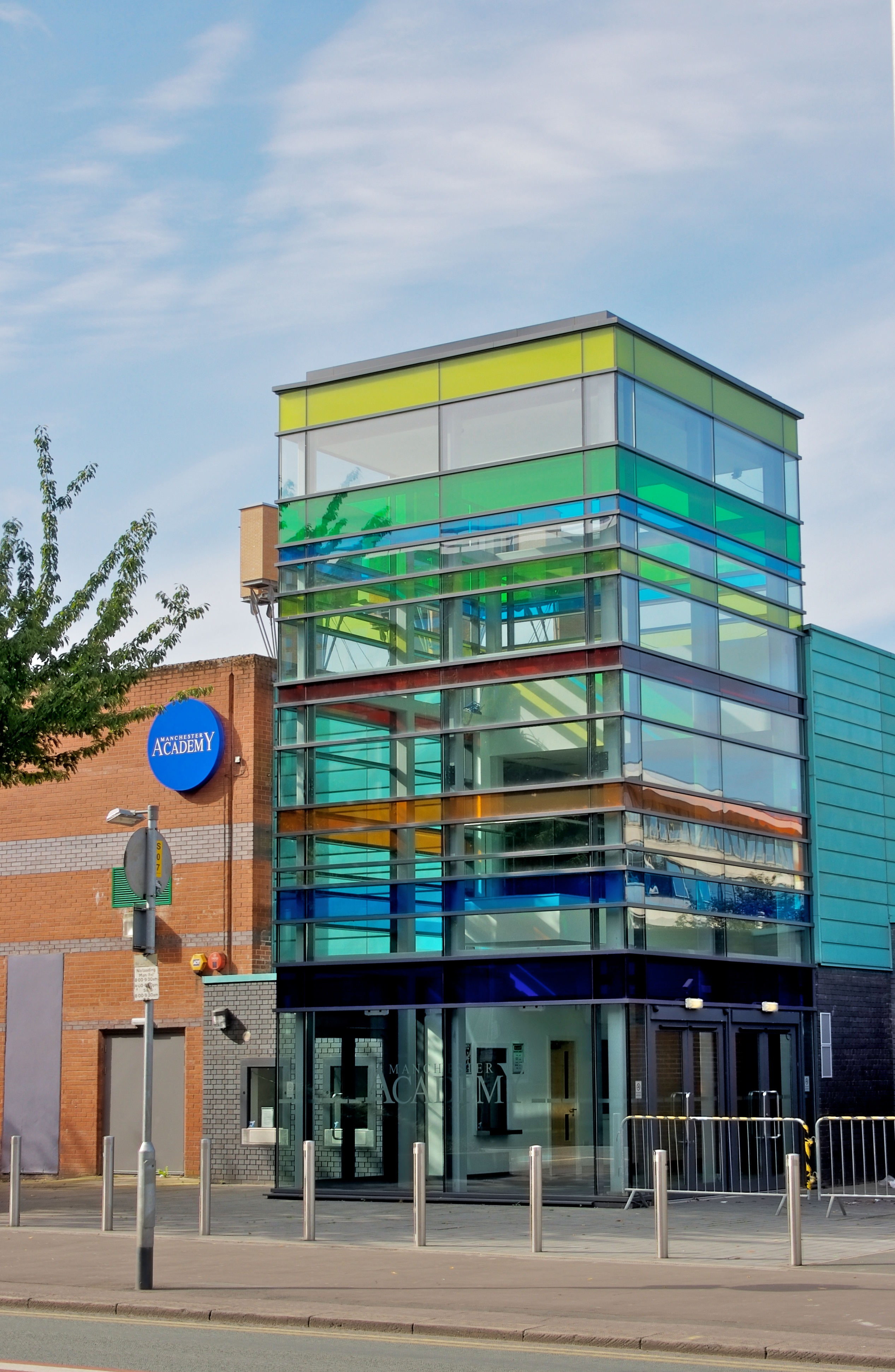 The front entrance to Manchester Academy